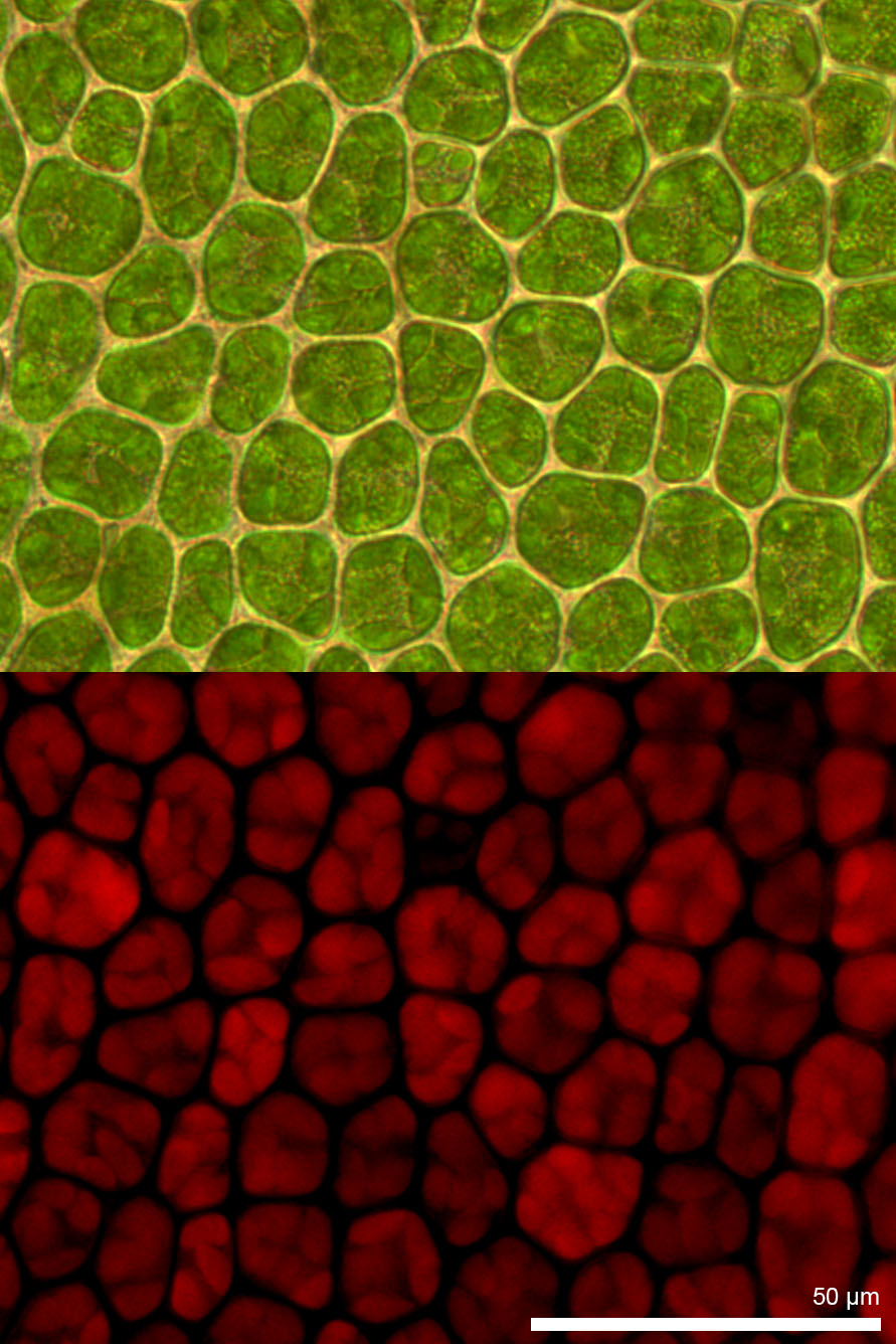 Microscopic images of a leaf of the moss Plagiomnium undulatum. Top: brightfield image. Bottom: autofluorescence of the chloroplasts. Single images, recorded with a 40x0.8 objective.